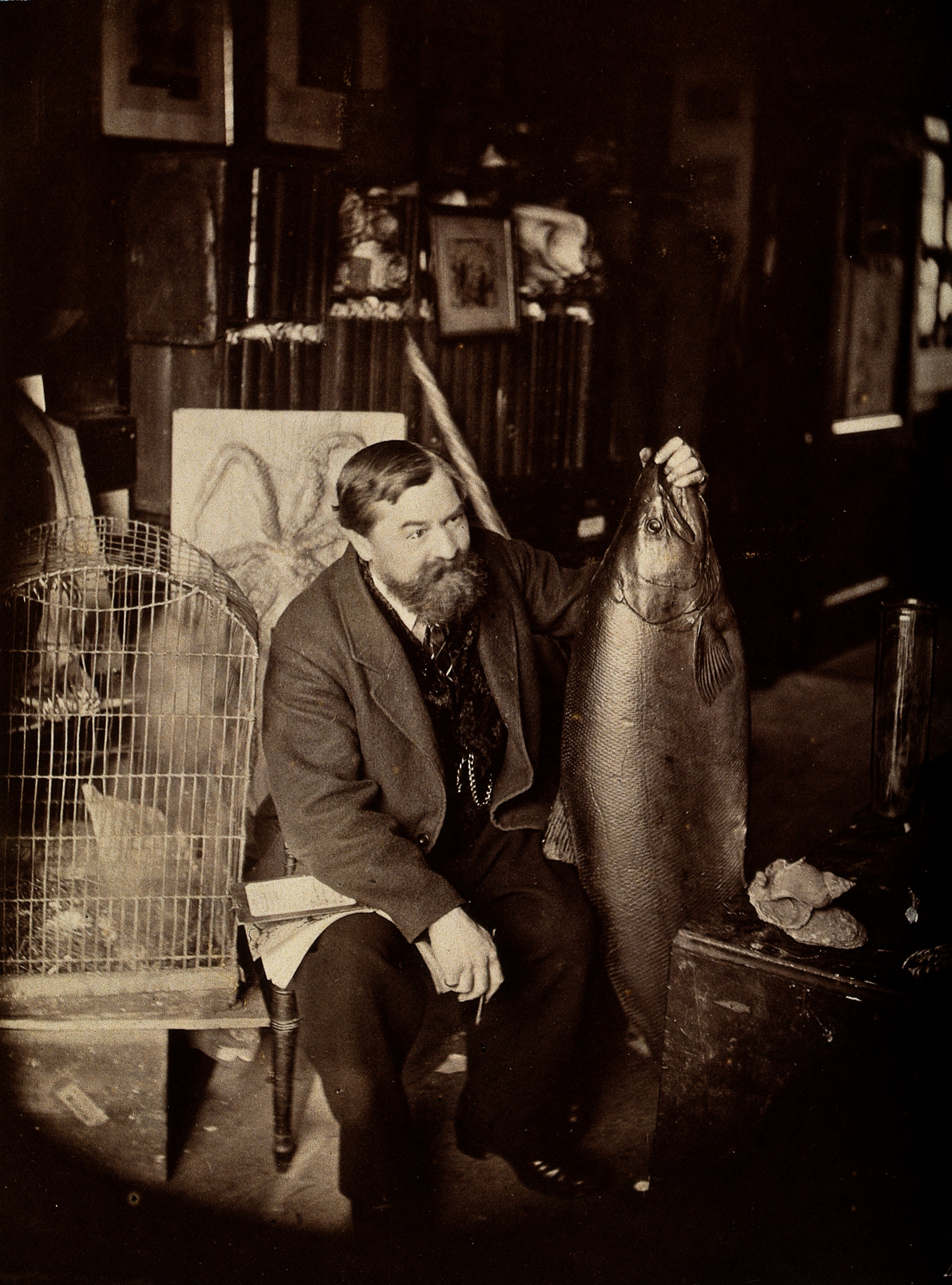 Francis Trevelyan Buckland. Photograph by S.A. Walker. Iconographic Collections Keywords: portrait photographs